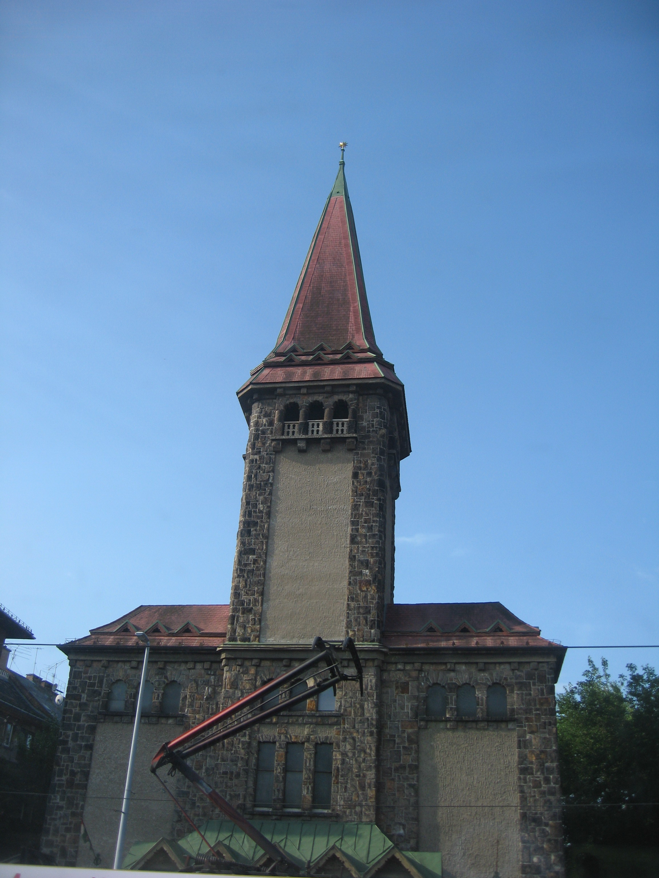 Reformed church in Kelenföld